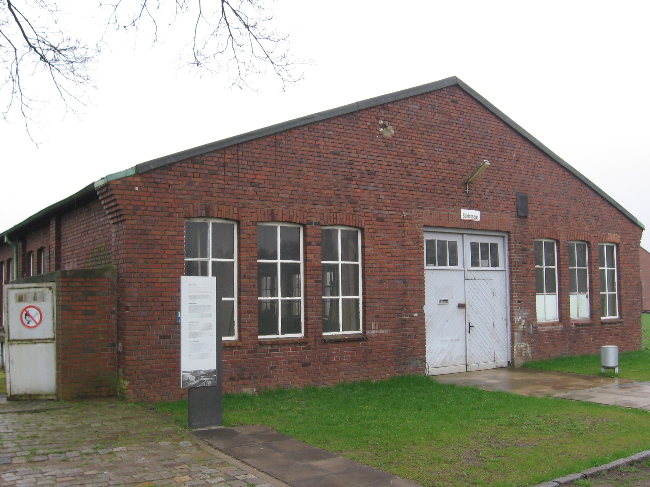 Former Locksmithery of the German concentration camp Neuengamme.